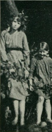 Frances Griffiths and Elsie Wright on a snapshot take by Arthur Wright in june 1917, with the "midg" camera he had just obtained. The two girls are known through the Cottingley fairies. Taken with a Midg quarter plate. First published in Conan Doyle's 1922 book : "The Coming of the Fairies"